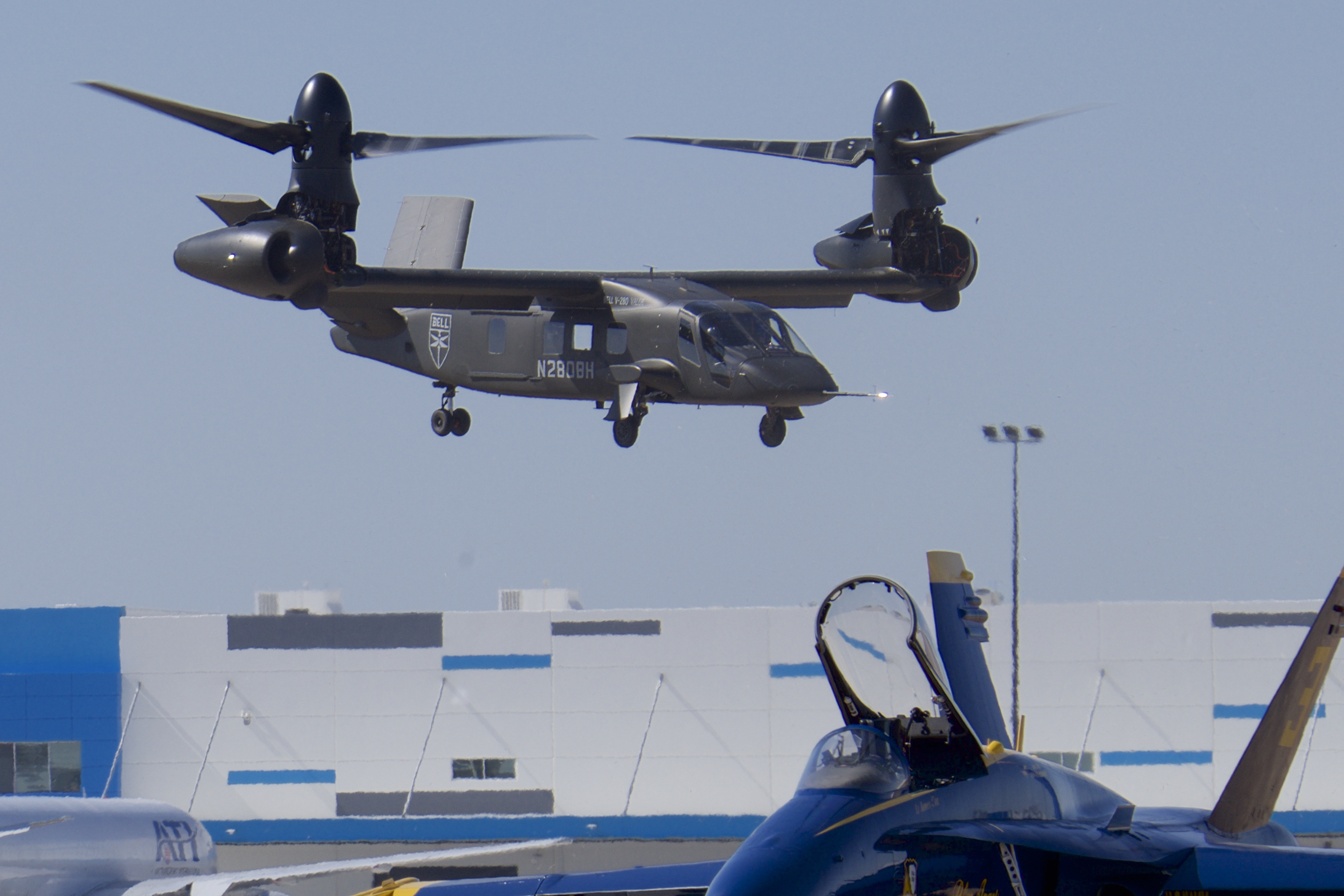 Bell V-280 Valor demonstrating hover on station capability, 2019 Alliance Air Show, Fort Worth, TX.